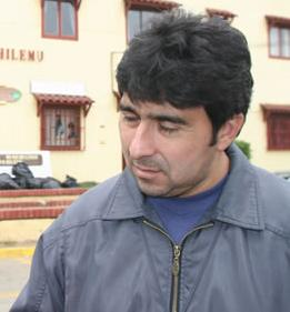 Jorge Vargas in a protest, in Pichilemu.